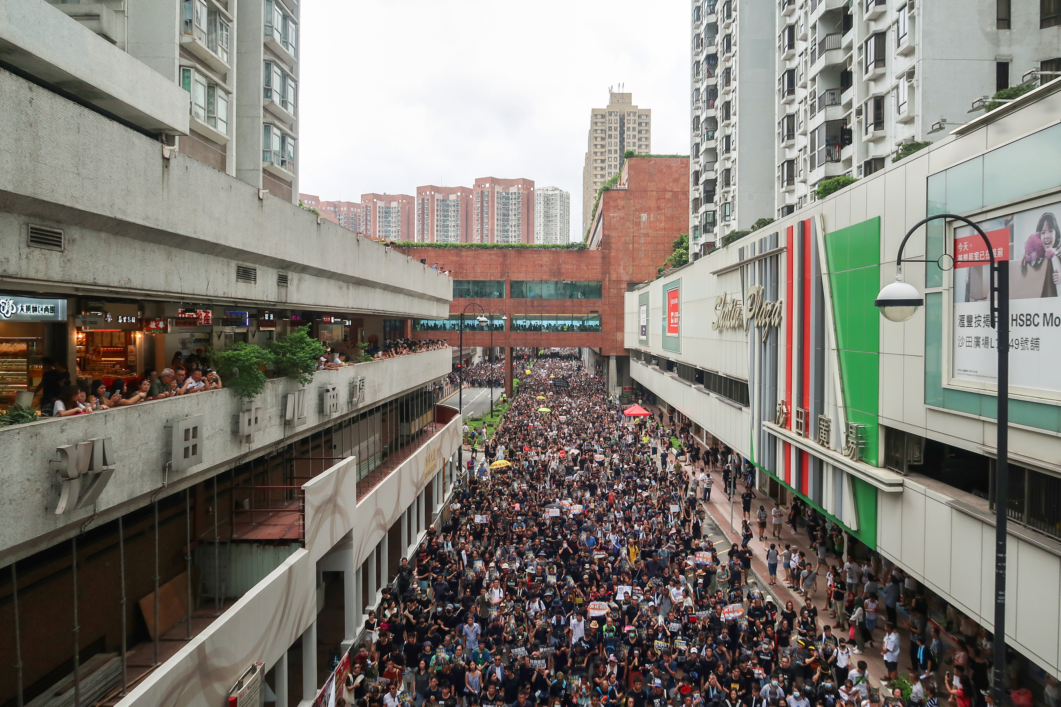 Demonstration against extradition bill, 14 July 2019 in Shatin